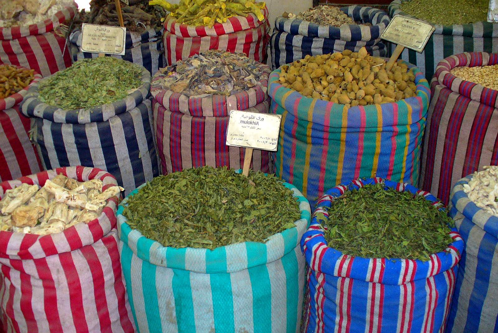 Sacs of spices, Bab el Khalq, Cairo, Egypt